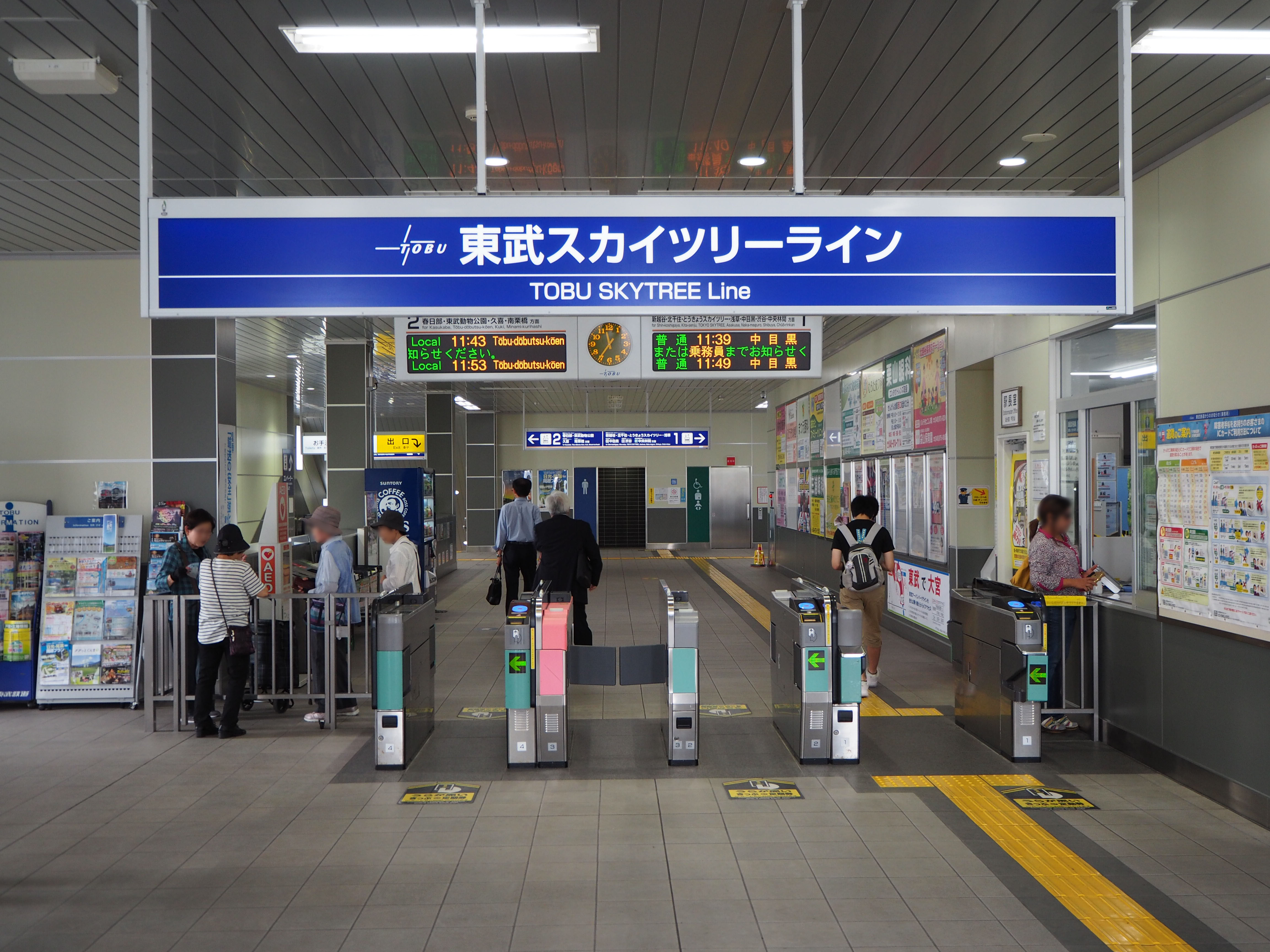 Ticket barriers of Ōbukuro Station